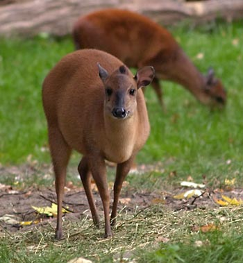 Red Forest Duiker in the ZOO Berlin